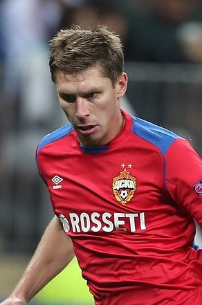 Kirill Nababkin